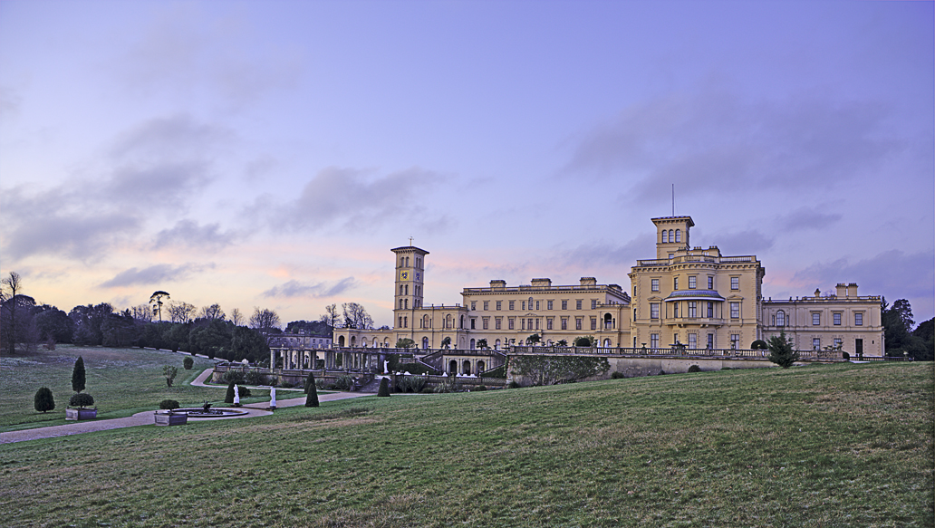 Osborne House North Facade - Queen Victoria's Family retreat